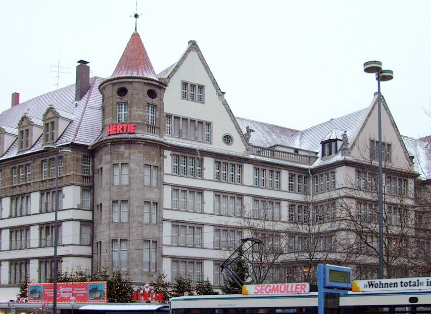 department store "Hertie" in Munich, Germany. Today: Karstadt